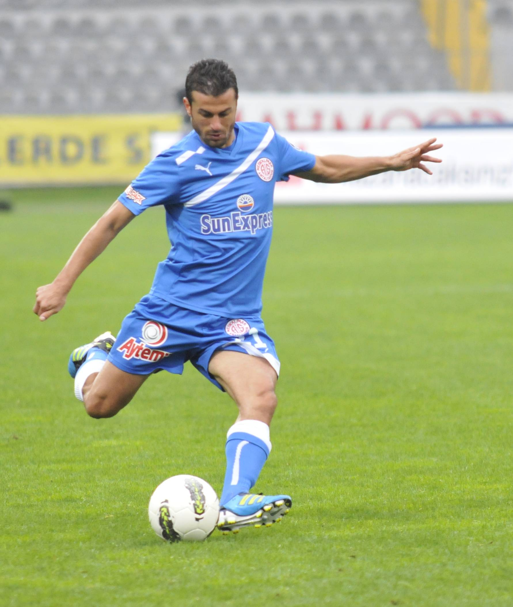 Photo : Murat Özgen